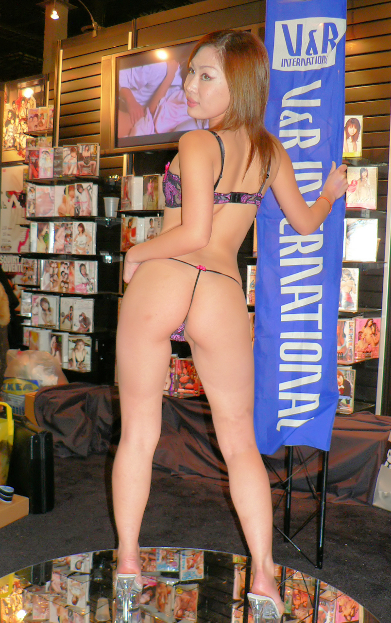 Haru Asahina at V&R International booth.